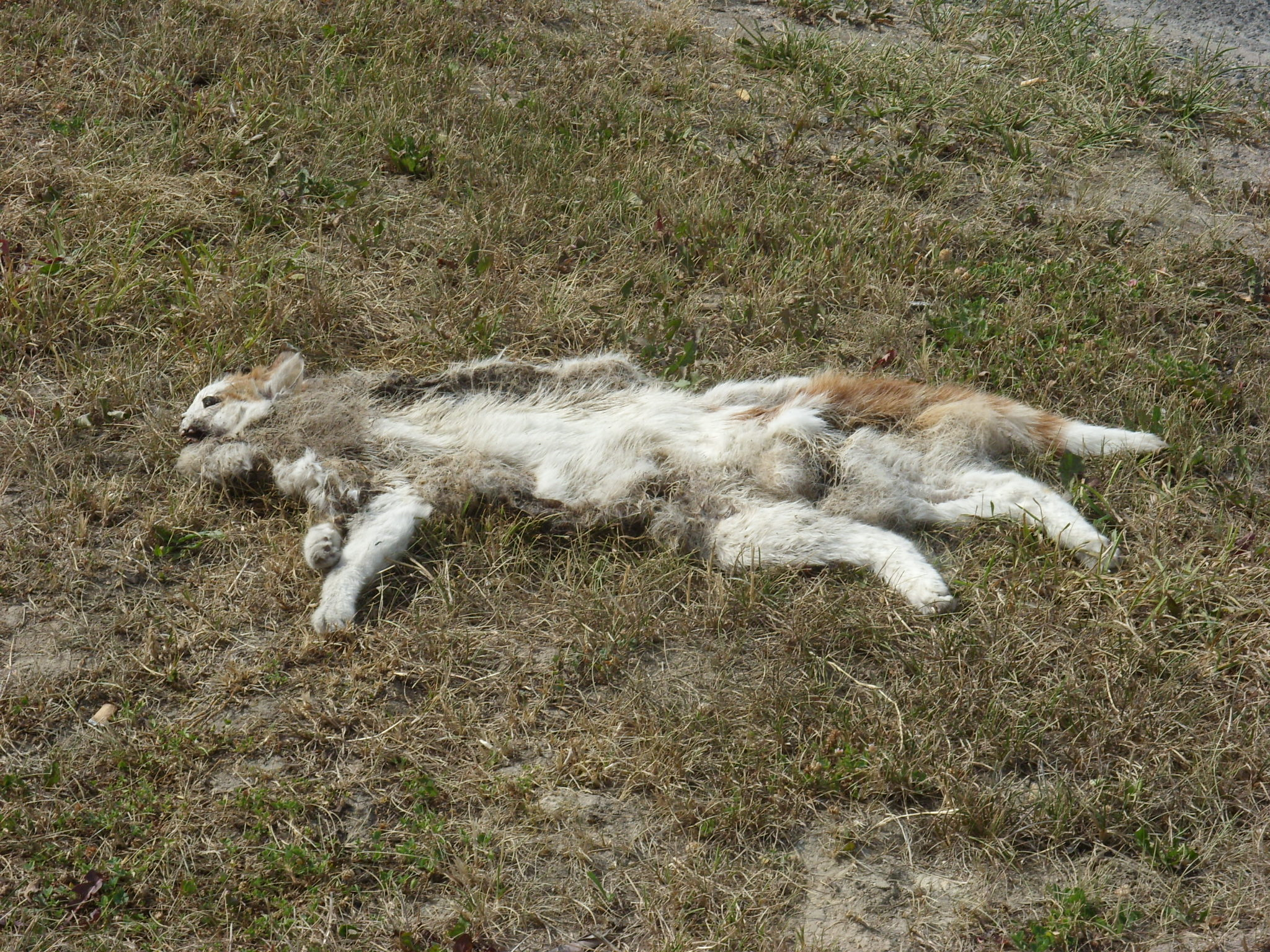 A cat corpse on a road shoulder.